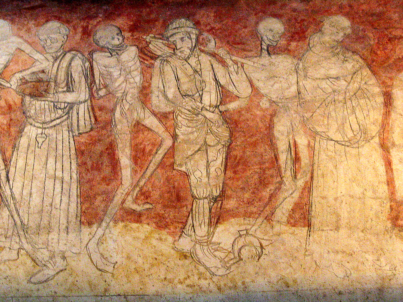 La Chaise-Dieu (Haute-Loire - France) , aisle north of the abbey church Saint-Victor - Fragment of the fresco of the danse macabre, where are represented the theologian clerk, the ploughman flanked by two humans who are perished and the Cistercian monk (mid-XVth century).